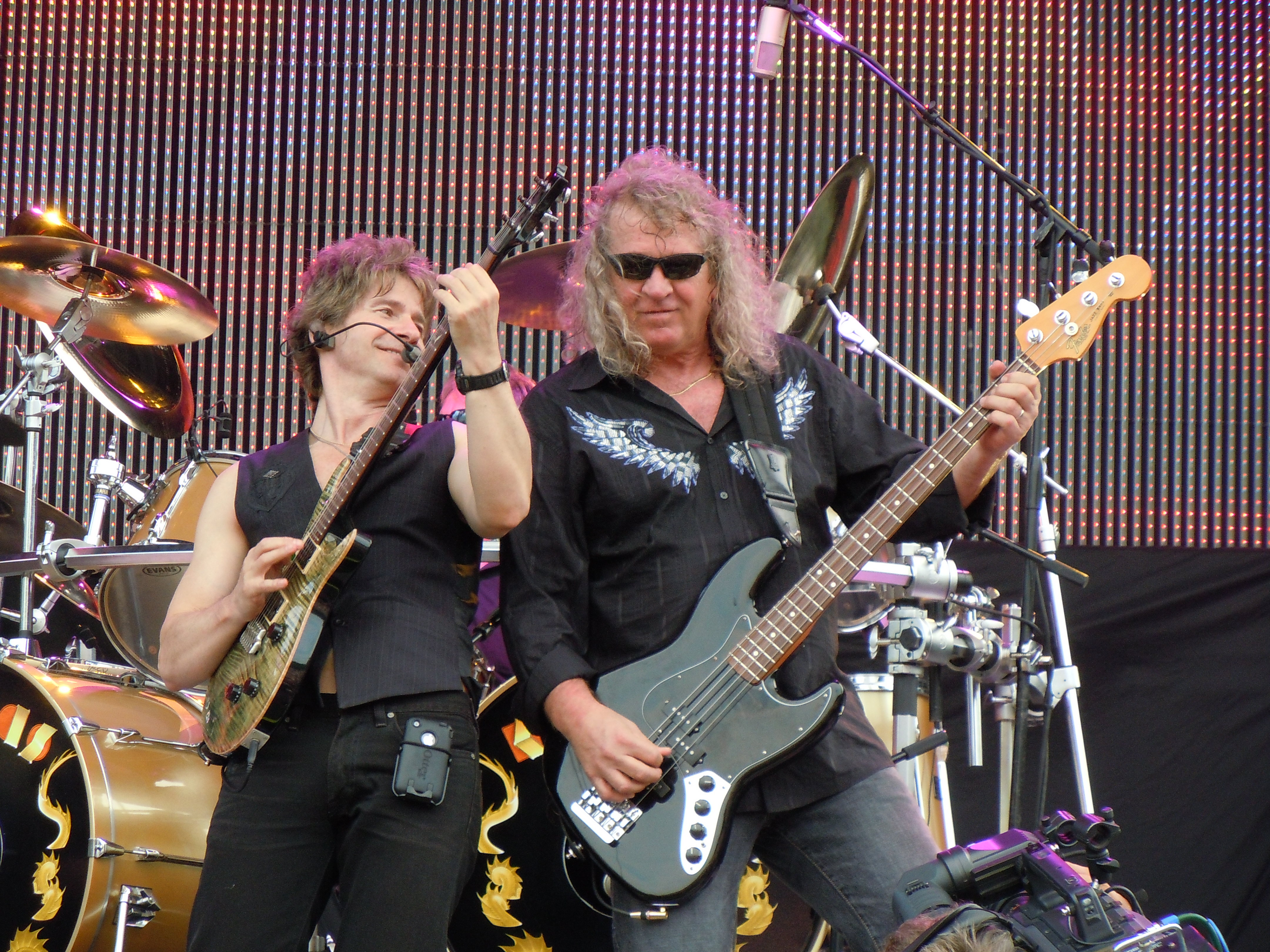 David Ragsdale and Billy Greer